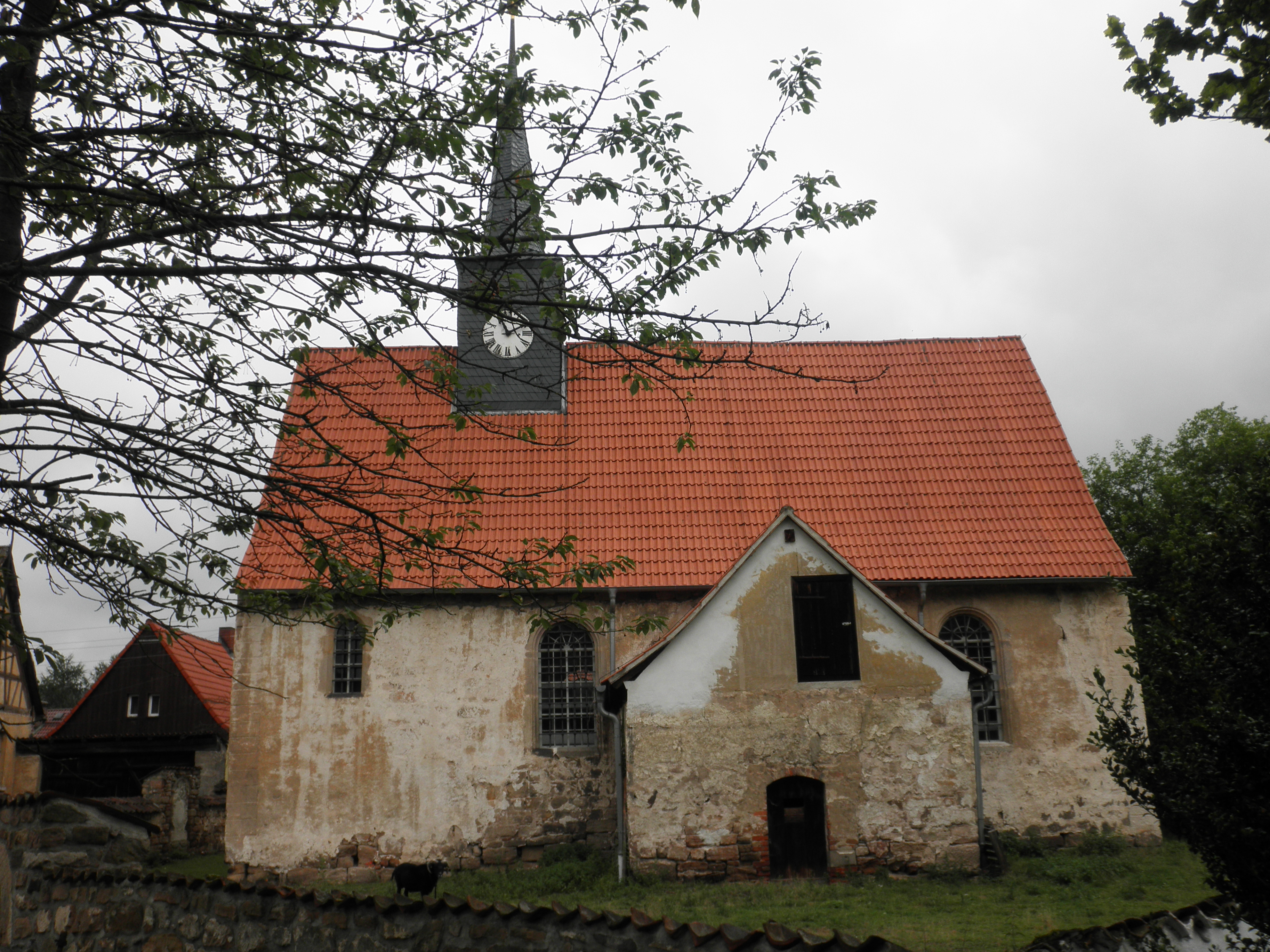 Church in Kleindembach in Thuringia